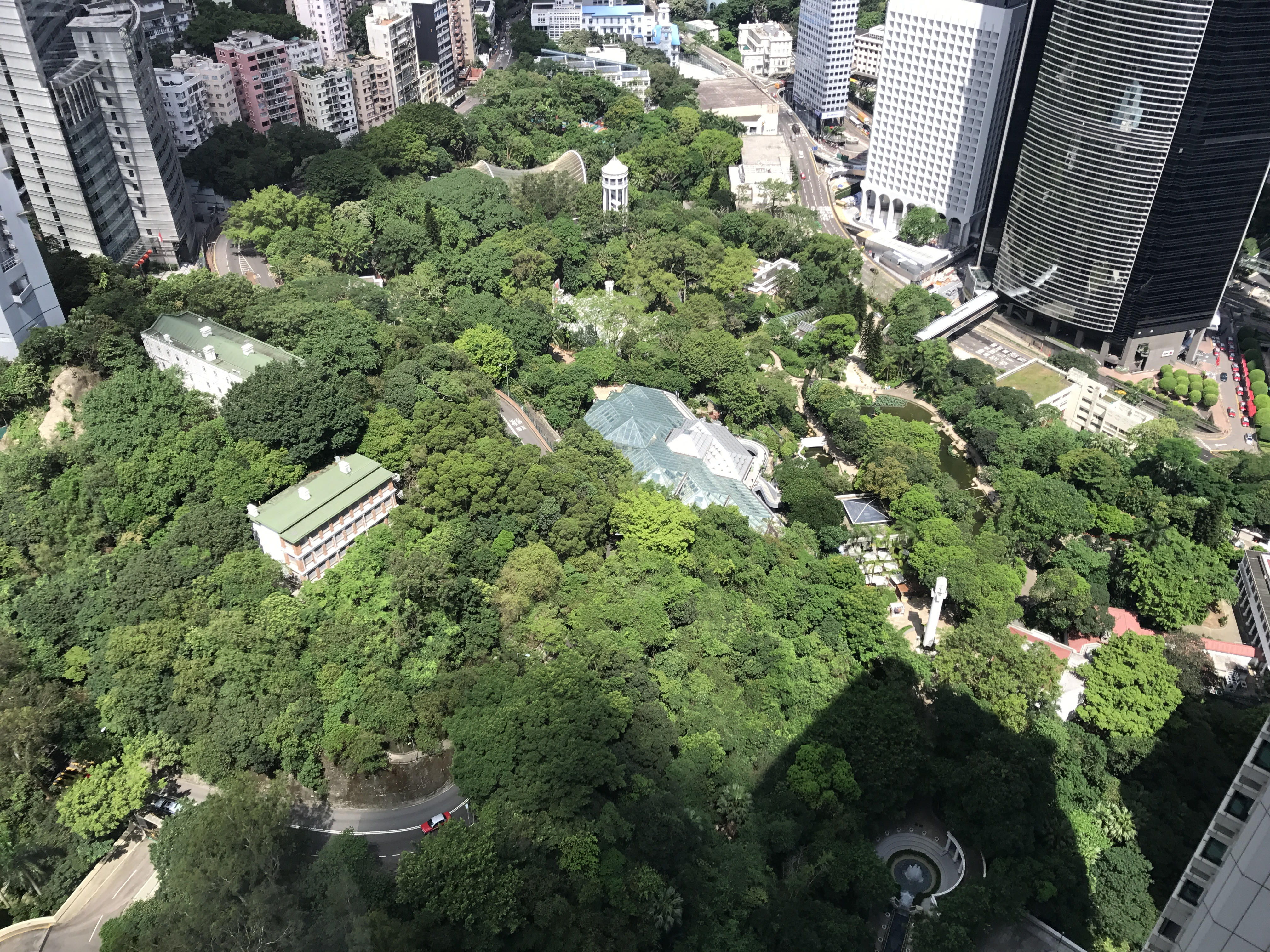 Public park on Hong Kong Island. Shot taken from the Island Shangri-La Hotel